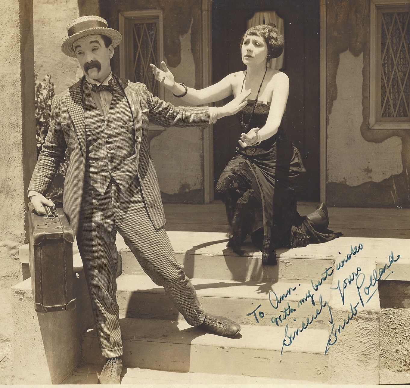 Snub Pollard Inscribed Publicity Photo